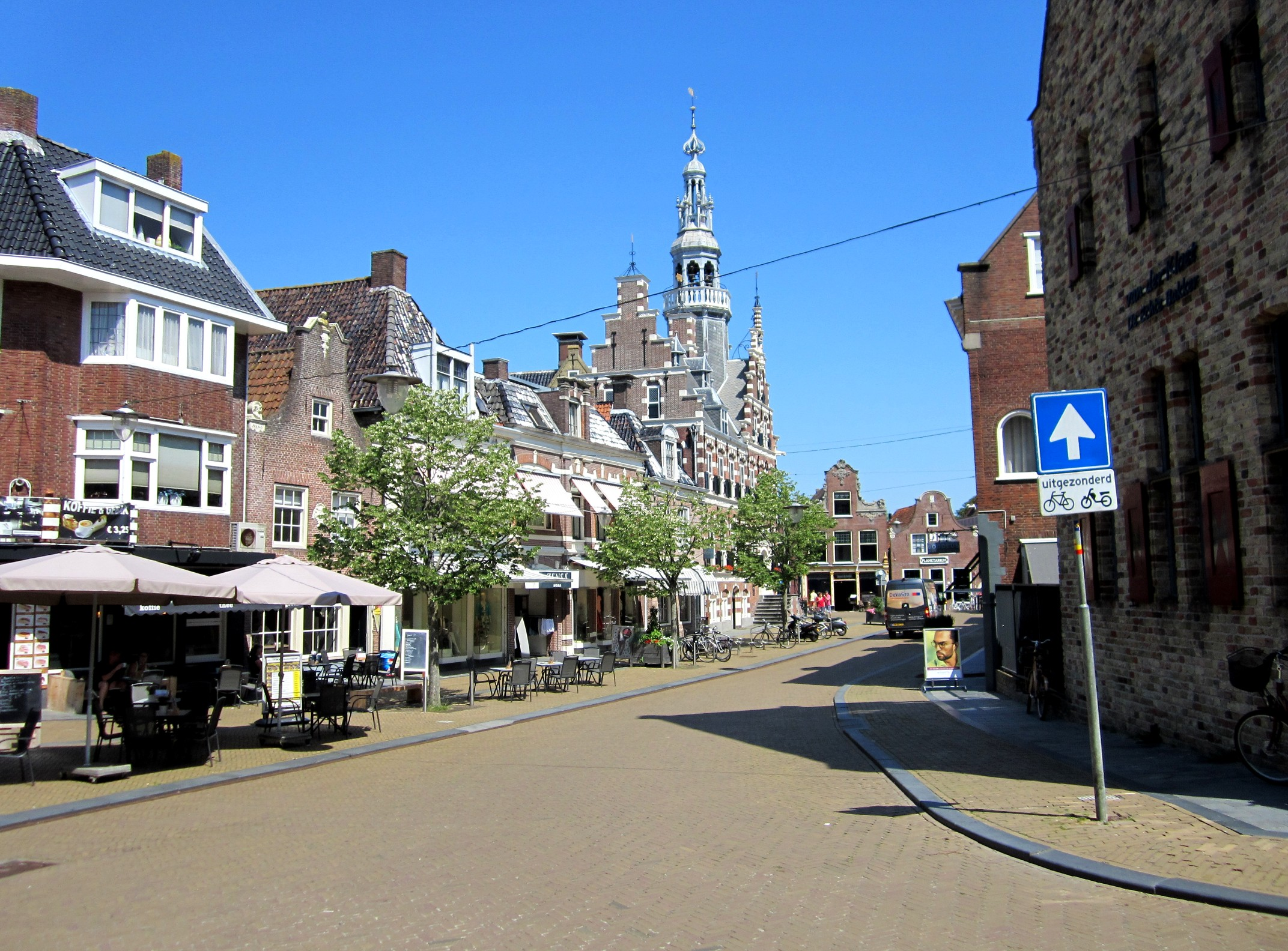 Riedhûsplein/Raadhuisplein in Frjentsjer/Franeker, Friesland, the Netherlands.